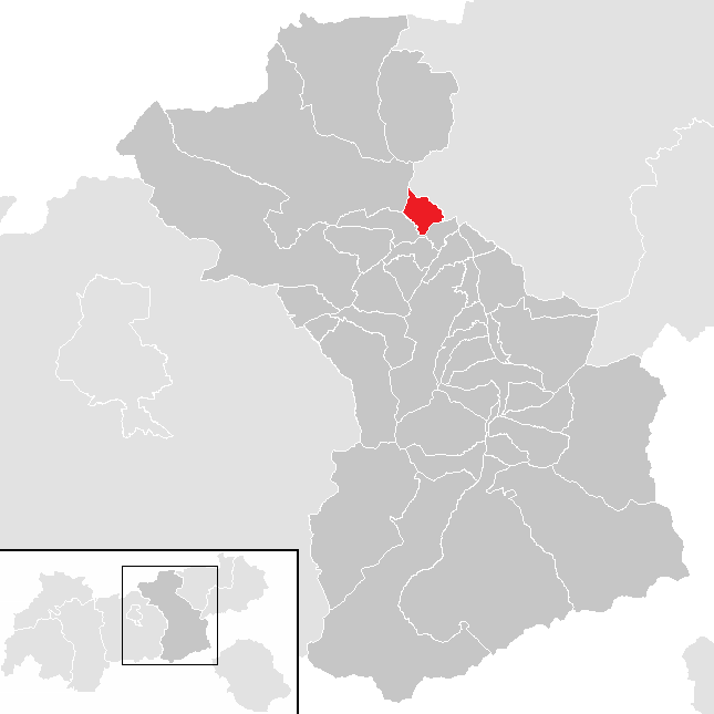 District Schwaz